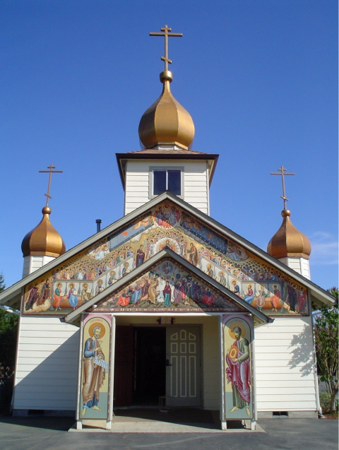 I took this picture yesterday, just outside of Gervais, Oregon. -- Andrew Parodi 09:14, 6 April 2007 (UTC)